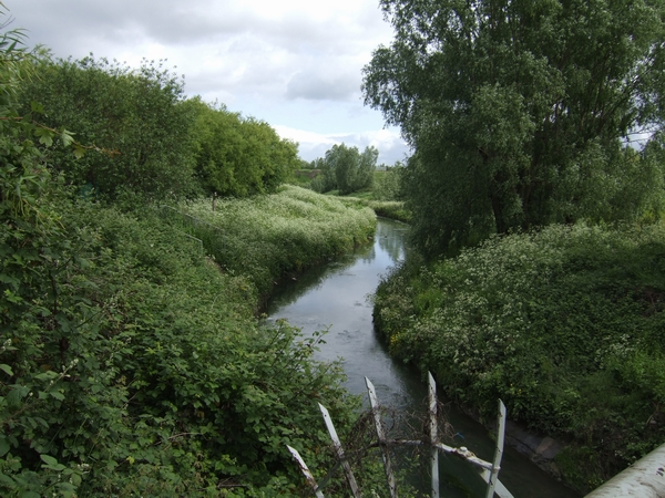 River Tame flows peacefully The picture gives a false impression. This is a post industrial landscape: the land that the river flows through is riddled with old mine shafts some left uncapped. The busy M6 motorway passes over to the right of the picture.